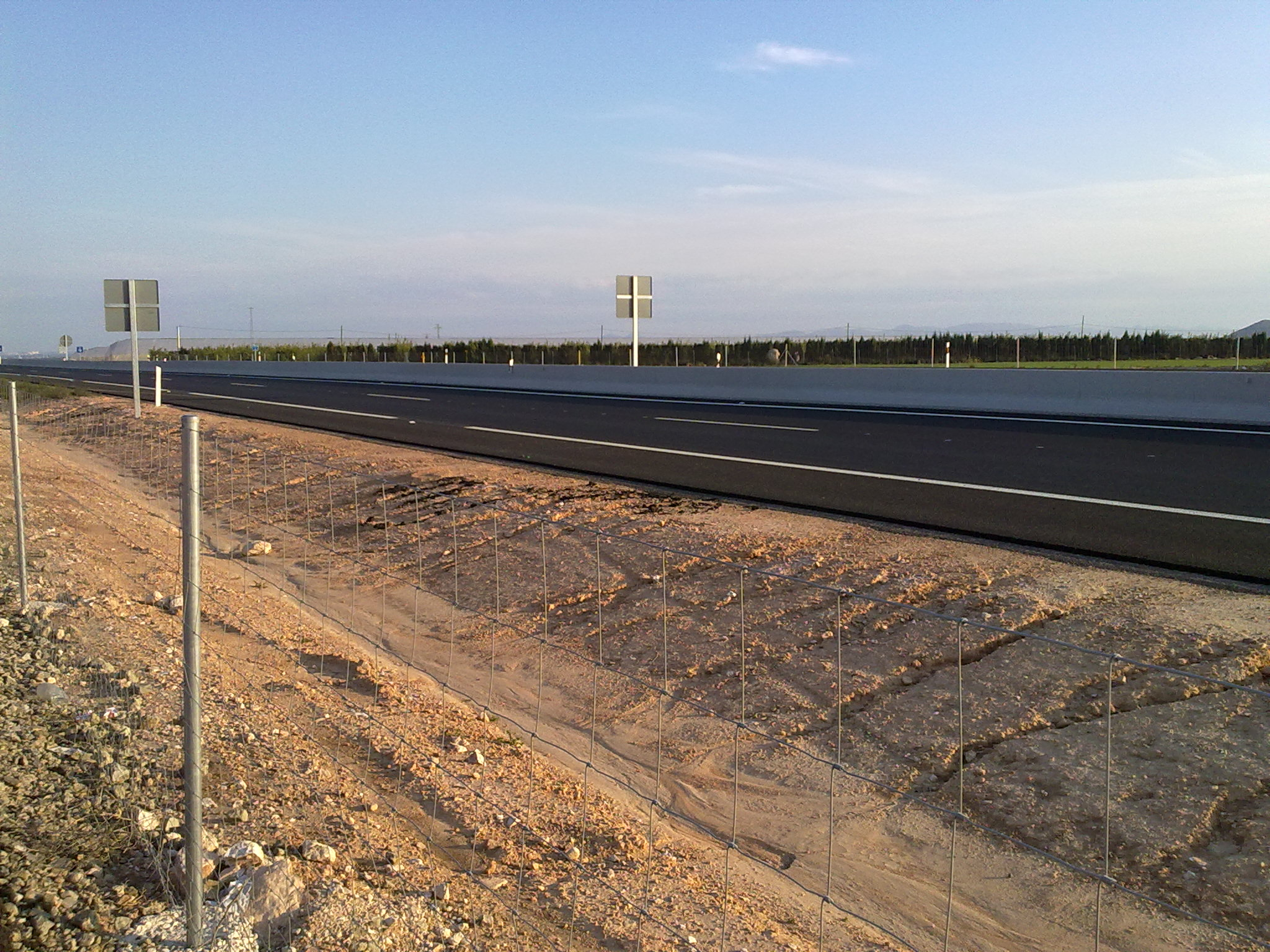 Photo of RM-1 Autovia